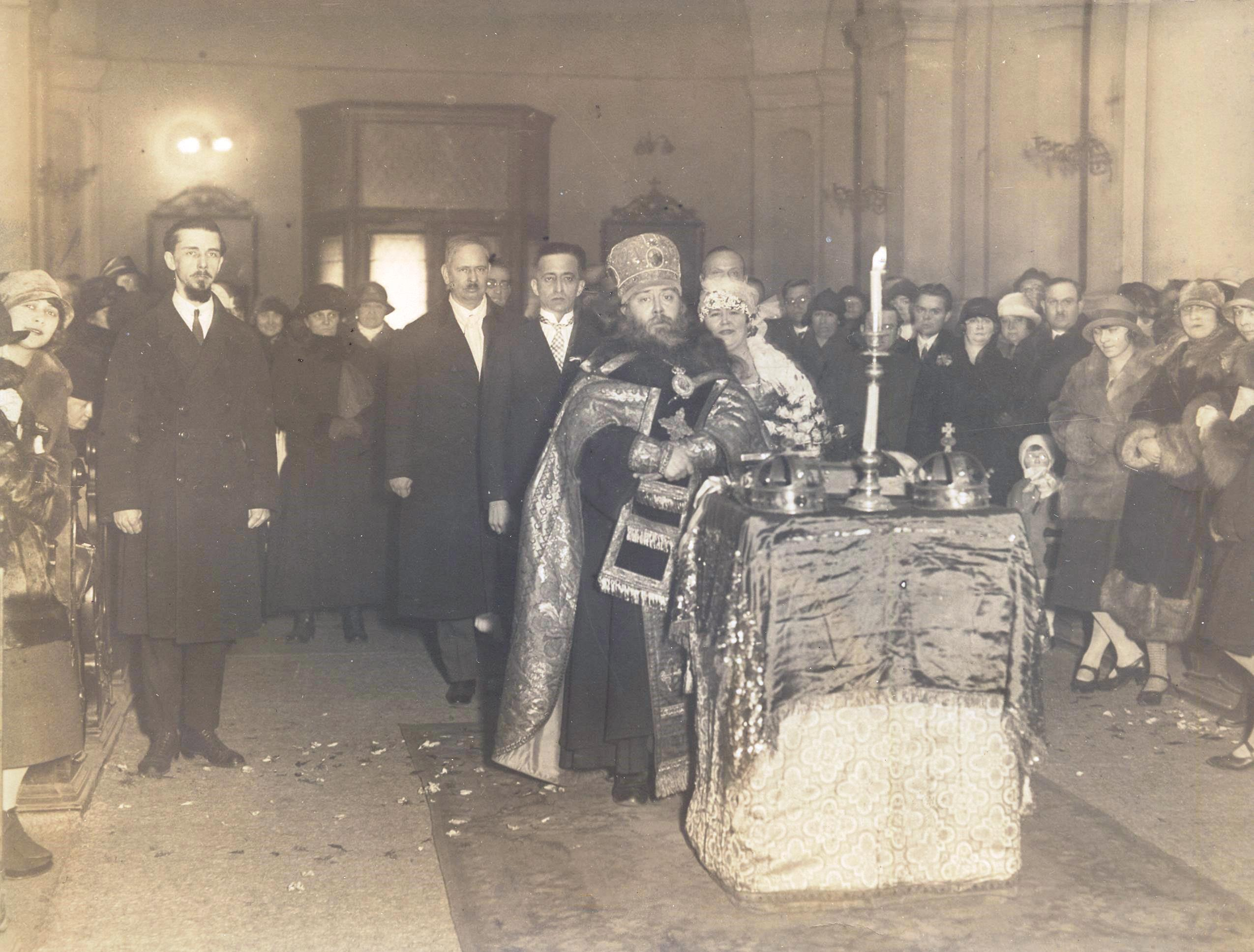 Bulgarian opera singer Hristina Morfova on her wedding with Ljuben Lukasch Prague, 1926